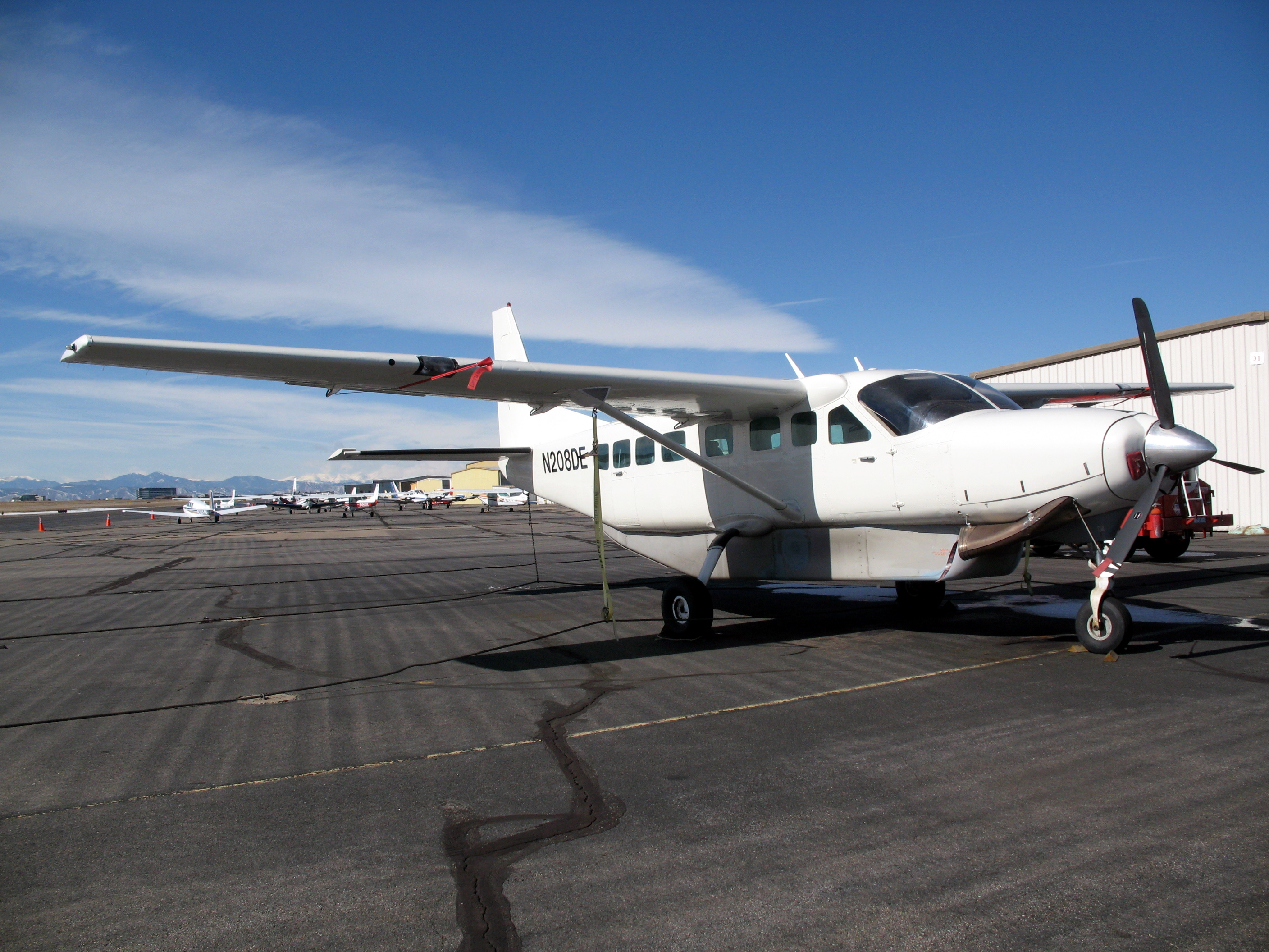 © Victor Agababov, KAPA, USA, February 2008 Category:Images of Cessna aircraft